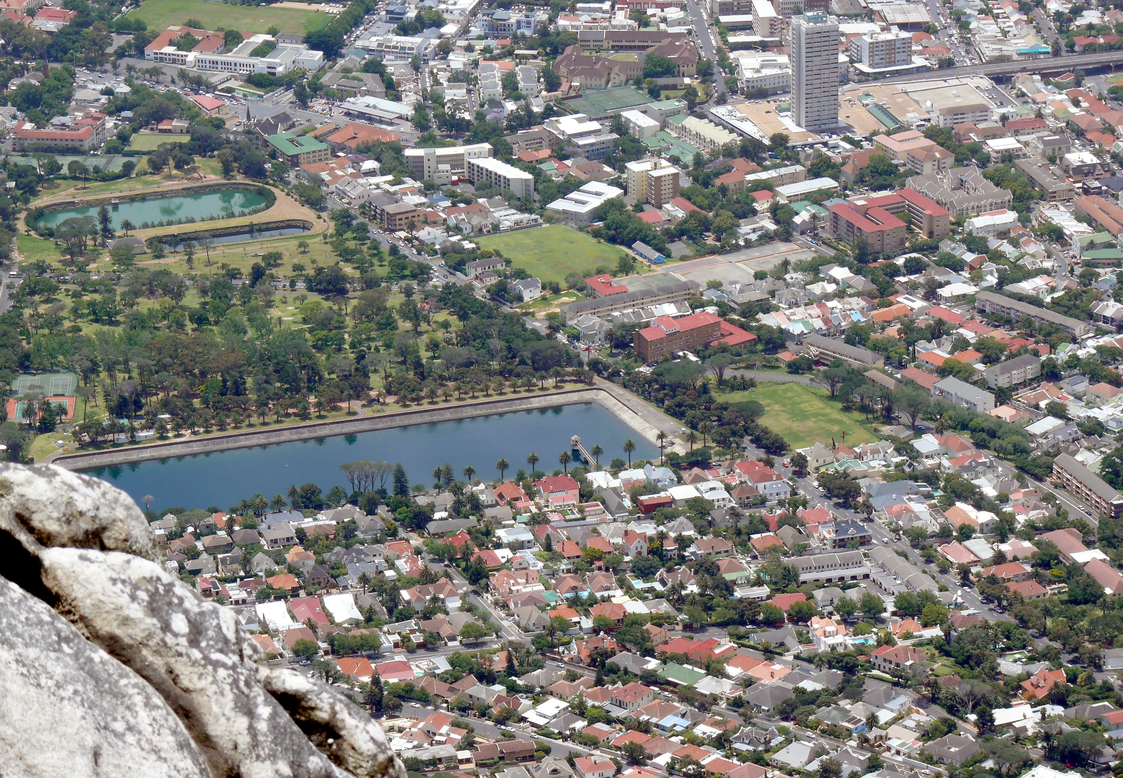 Oranjezicht from the summit of Table Mountain This media shows a South African Protected Site with SAHRA file reference 9/2/018/0013.